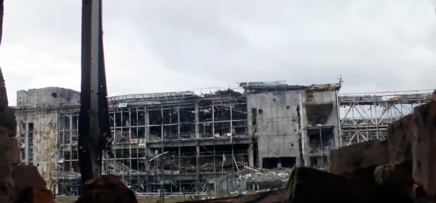 Ruins of Donetsk Sergey Prokofiev International Airport, December 24, 2014.